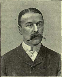 A picture of Francis Luscombe, 1875-1876 captain of the England rugby union team, and founder committee member of the Rugby Football Union.